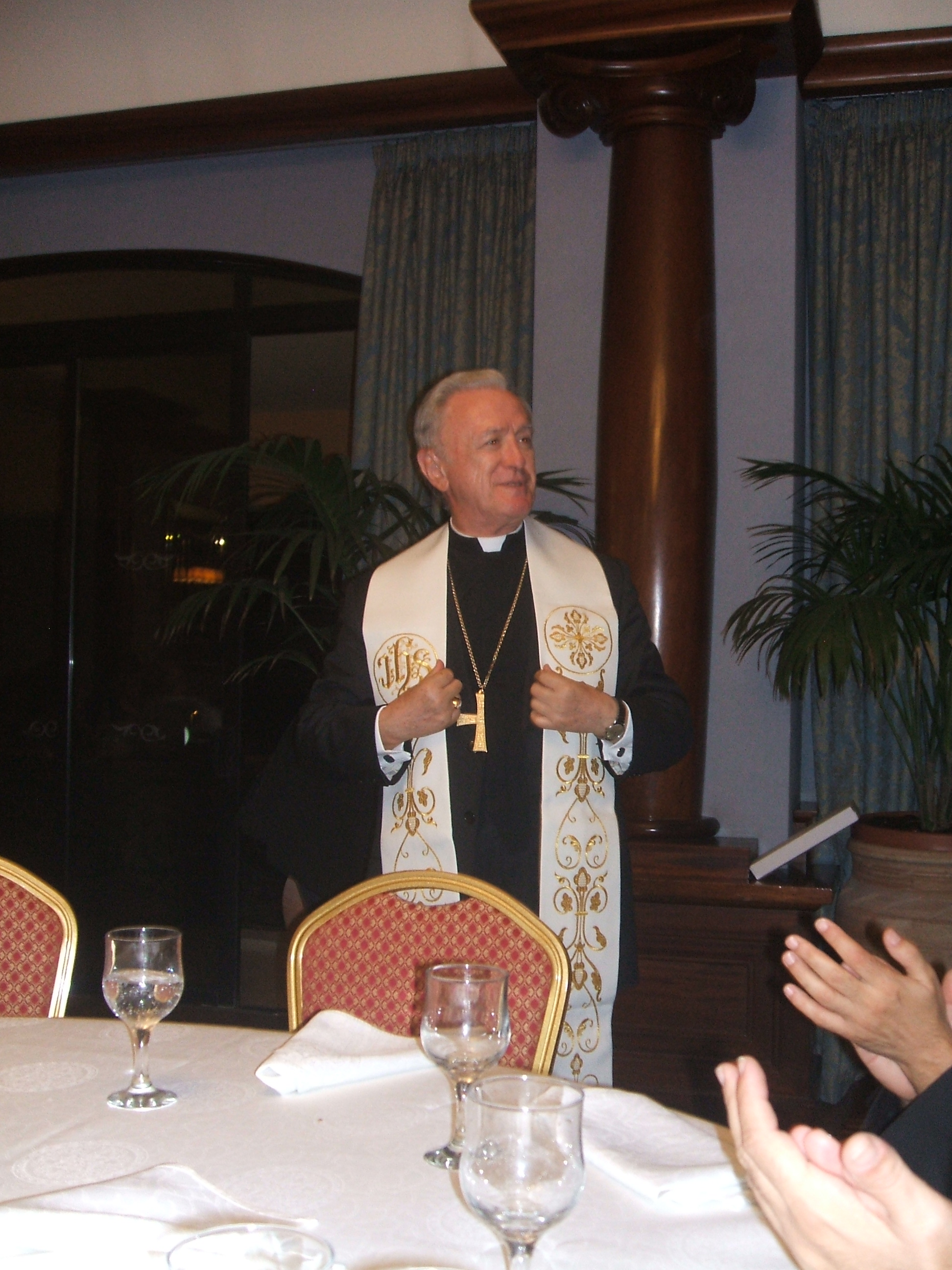 Archbishop Giovanni Tonucci (Territorial Prelate of Loreto) at celebrations of the feast of Our Lady of Loreto in Għajnsielem on the occasion of the 25th and 125th anniversaries of the consecration of village’s old and new churches. Location of celebration dinner was at the Grand Hotel in Gozo. Photo taken in the Grand Hotel in Gozo